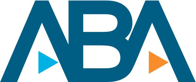 American Bar Associaiton logo